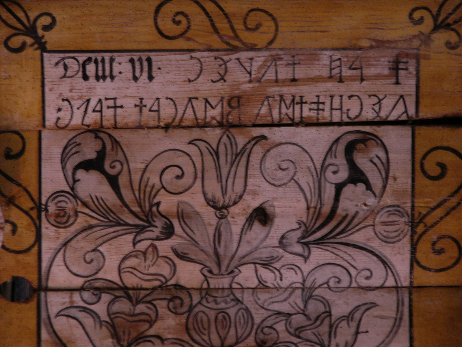 Enlaka, the Unitarian Church Transcription:Deut: VI·𐲎 𐲀𐲯 𐲐𐲤𐲦𐲉𐲙 𐲍𐲉𐲙𐲢𐲎𐲐𐲪𐲤 𐲘𐲪𐲤𐲙𐲀𐲐 𐲐𐲒𐲀𐲔𐲙